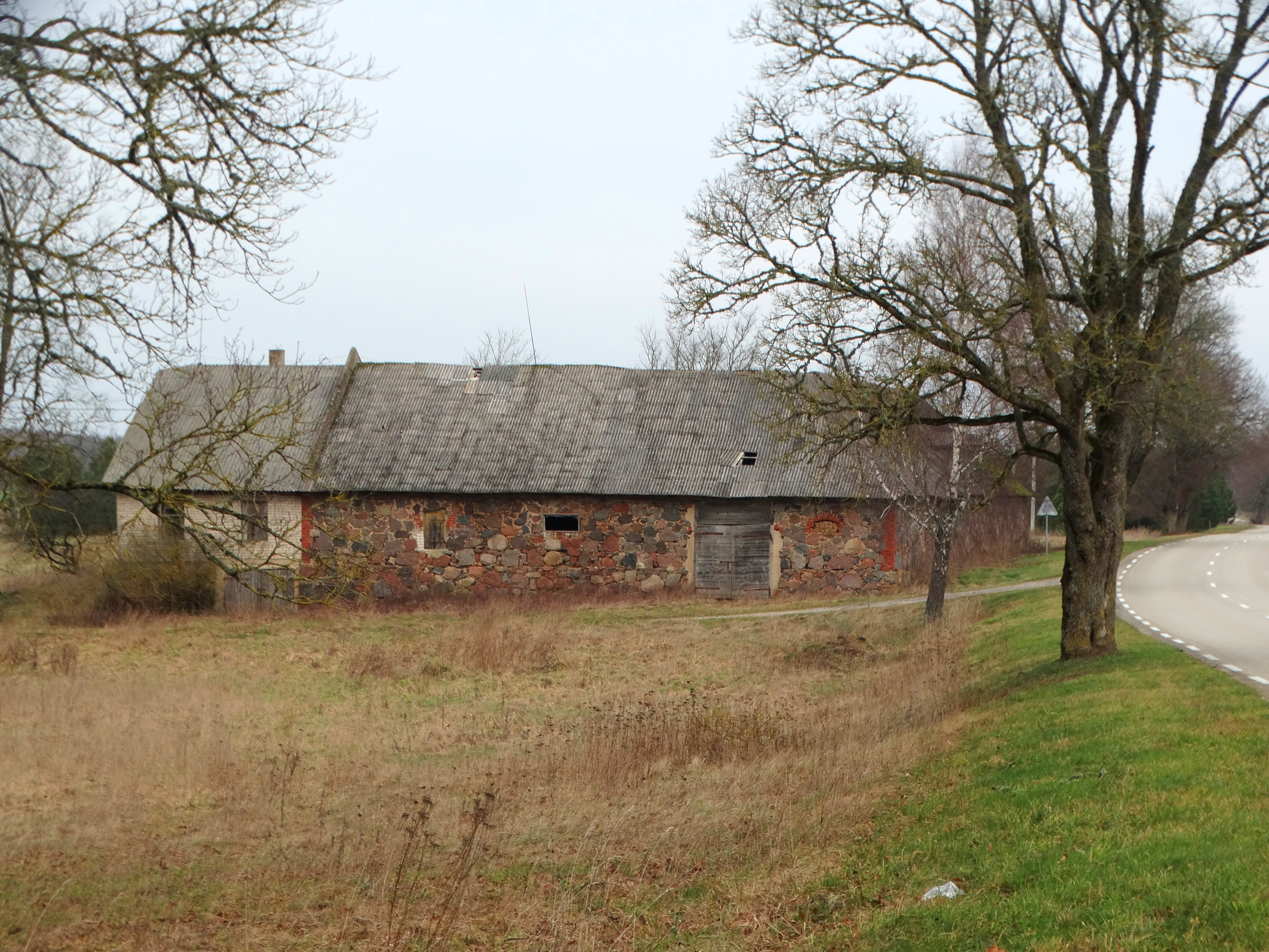 Former Šarkė manor, Daujotai, Skuodas District, Lithuania